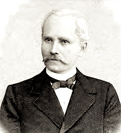 Potrait of Louis Kuhne. Frontispiece from his book Die neue Heilwissenschaft, oder die Lehre von der Einheit der Krankheiten und deren darauf begründetet arzneilose und operationslose Heilung (1908).